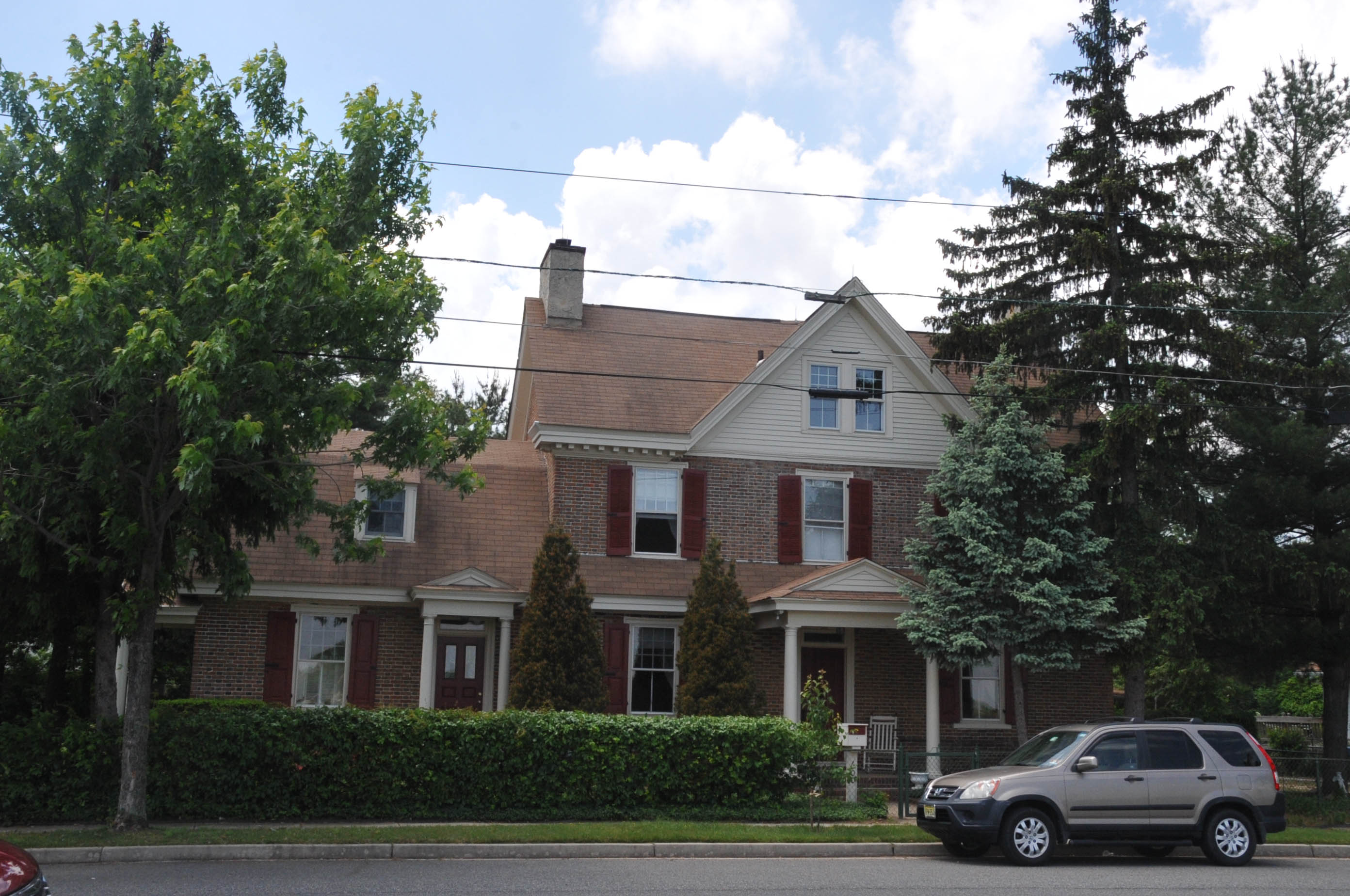 THIS OLD BRICK HOUSE WAS BUILT CA. 1775 BY THOMAS WEST, FOR WHOM WESTVILLE IS NAMED. IT HAS BEEN ALTERED MANY TIMES. IT IS LOCATED ON RIVER DRIVE FACING THE CREEK WHICH SEPARATES GLOUCESTER AND CAMDEN COUNTIES